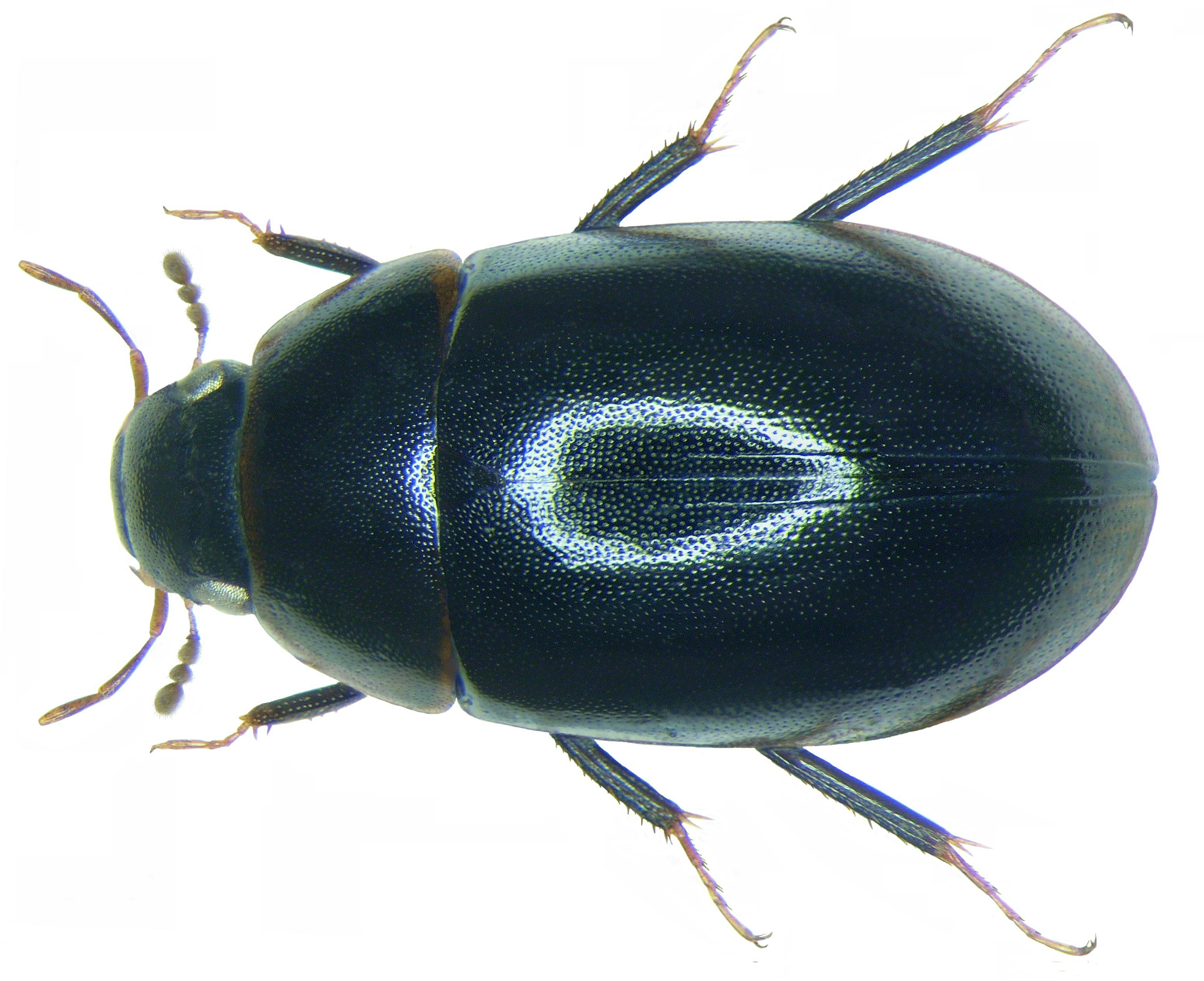 Cymbiodyta marginella, a species of beetle in the family Hydrophilidae Familie: Hydrophilidae Grösse: 3,3-4,3 mm Verbreitung: Europa Ökologie: an der Uferzone stehender Gewässer Fundort: Austria, Neusiedler See, Podersdorf leg.det. U.Schmidt, 1975 Foto: U.Schmidt, 2008